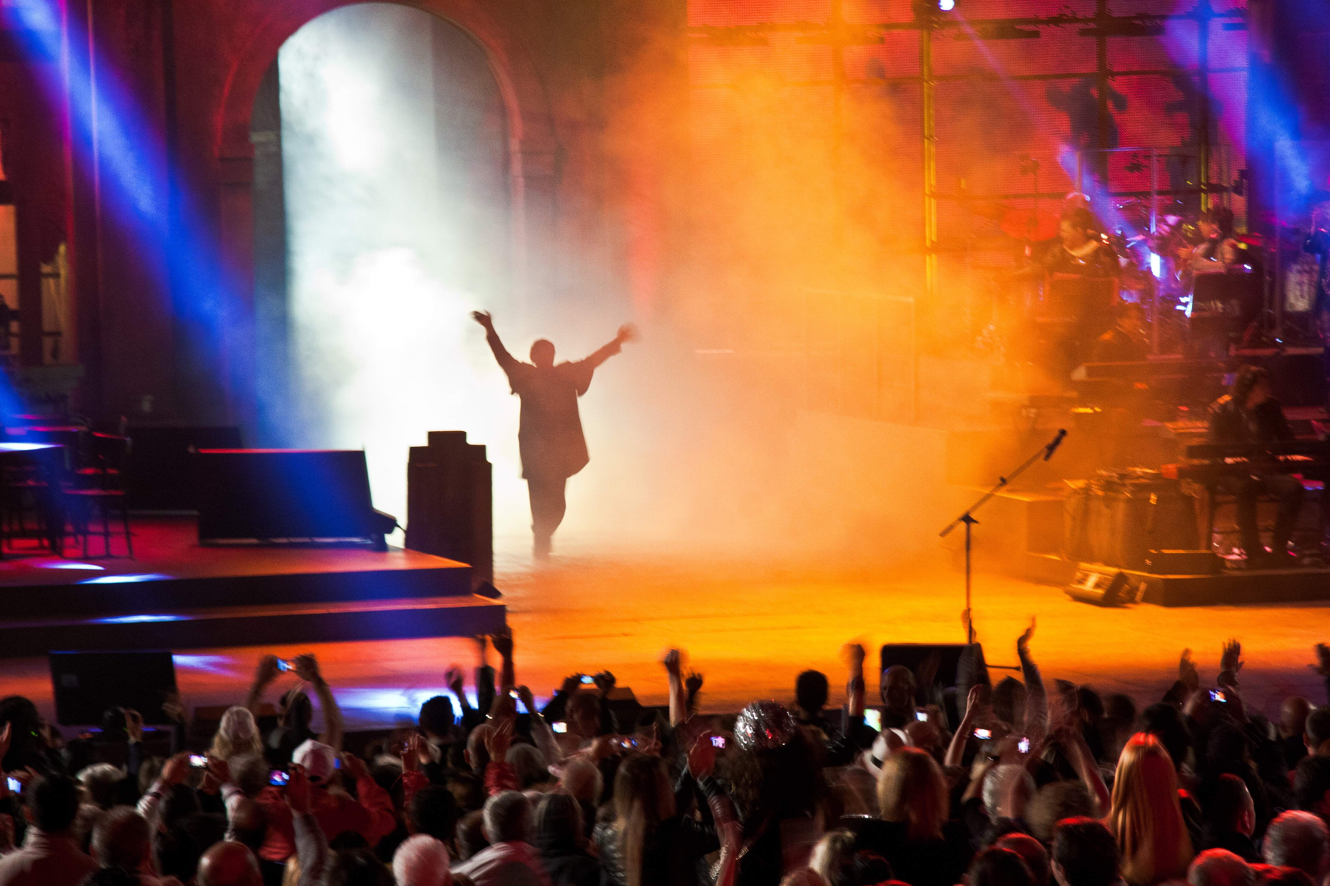 Adriano Celentano. Live in Verona.